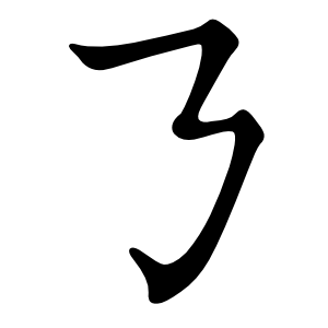 This ㄋ-red.png image depicting the stroke order of the character ㄋ in red.png style. This image is part of the Commons:Stroke Order Project(zh-de-ja), a project to create a complete set of images depicting the right stroke order (Protocols).The 214 Kangxi radicals have been completed. We currently work on the most frequent characters. Help is welcome.